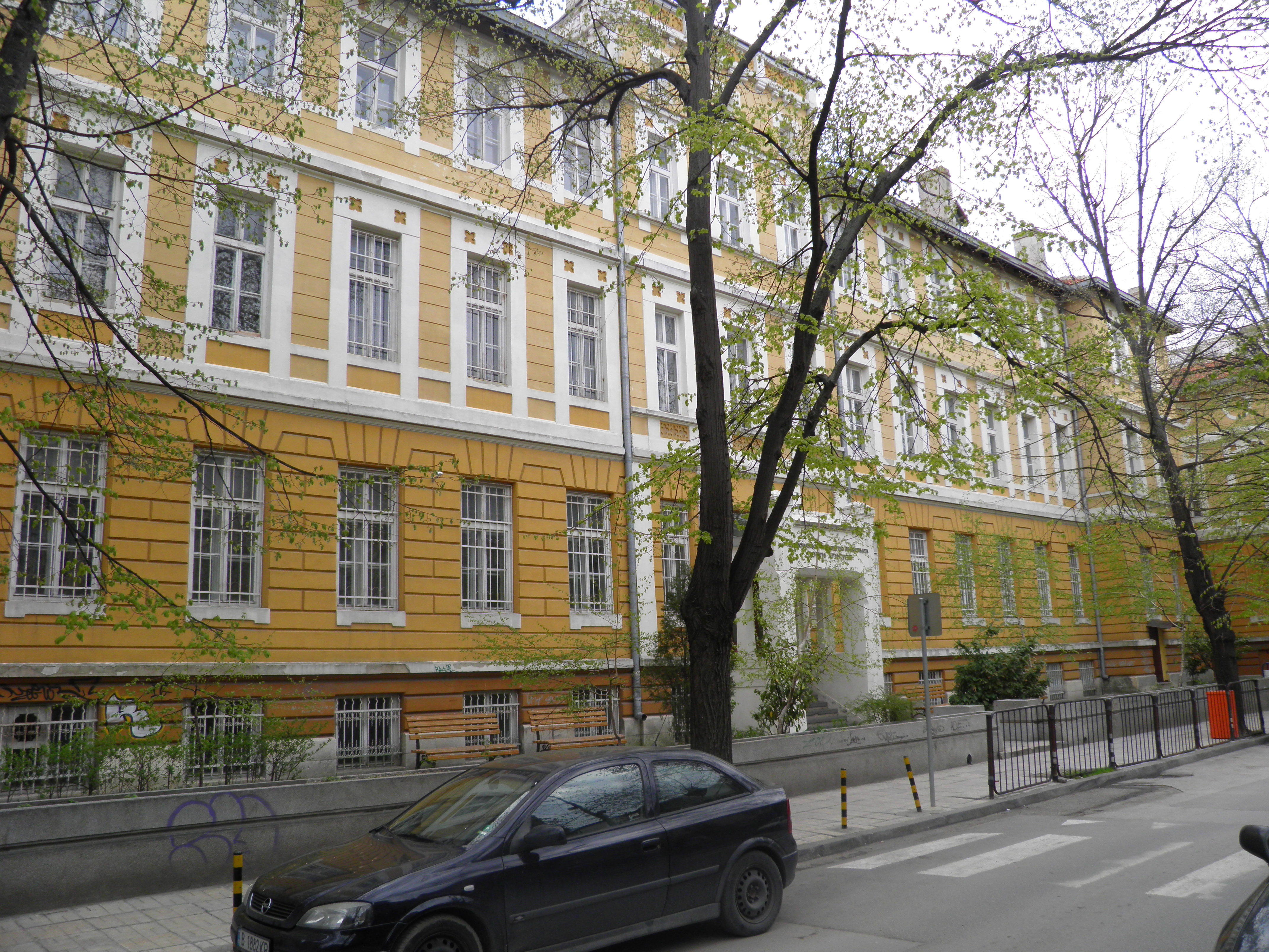 Dobri Hristov`s school of art